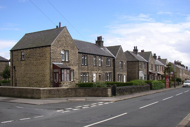 Houses, Quarmby Road, Quarmby These are part of an estate including Hawes Avenue on the left. They were built in the first half of the 20C, and I suspect that they were council houses.